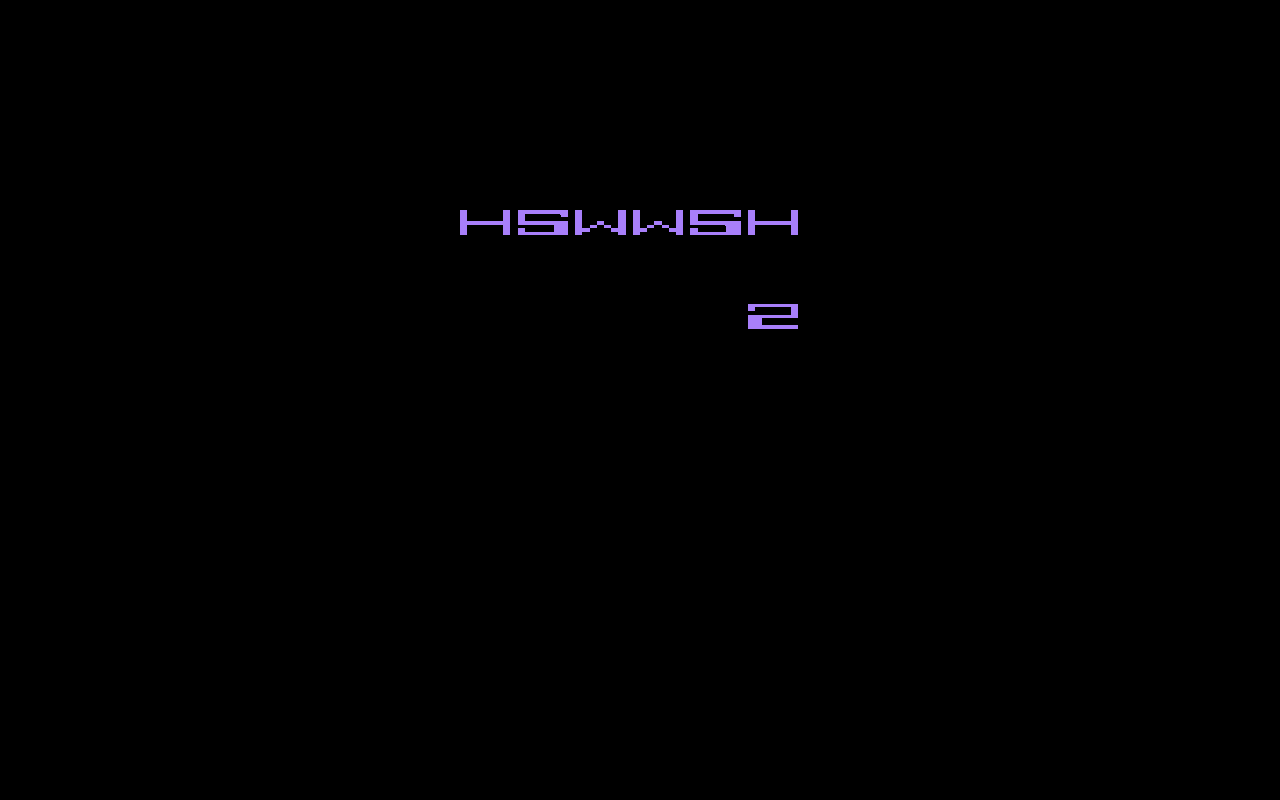 A screenshot of the Easter egg found in the Atari 2600 game Yar's Revenge.